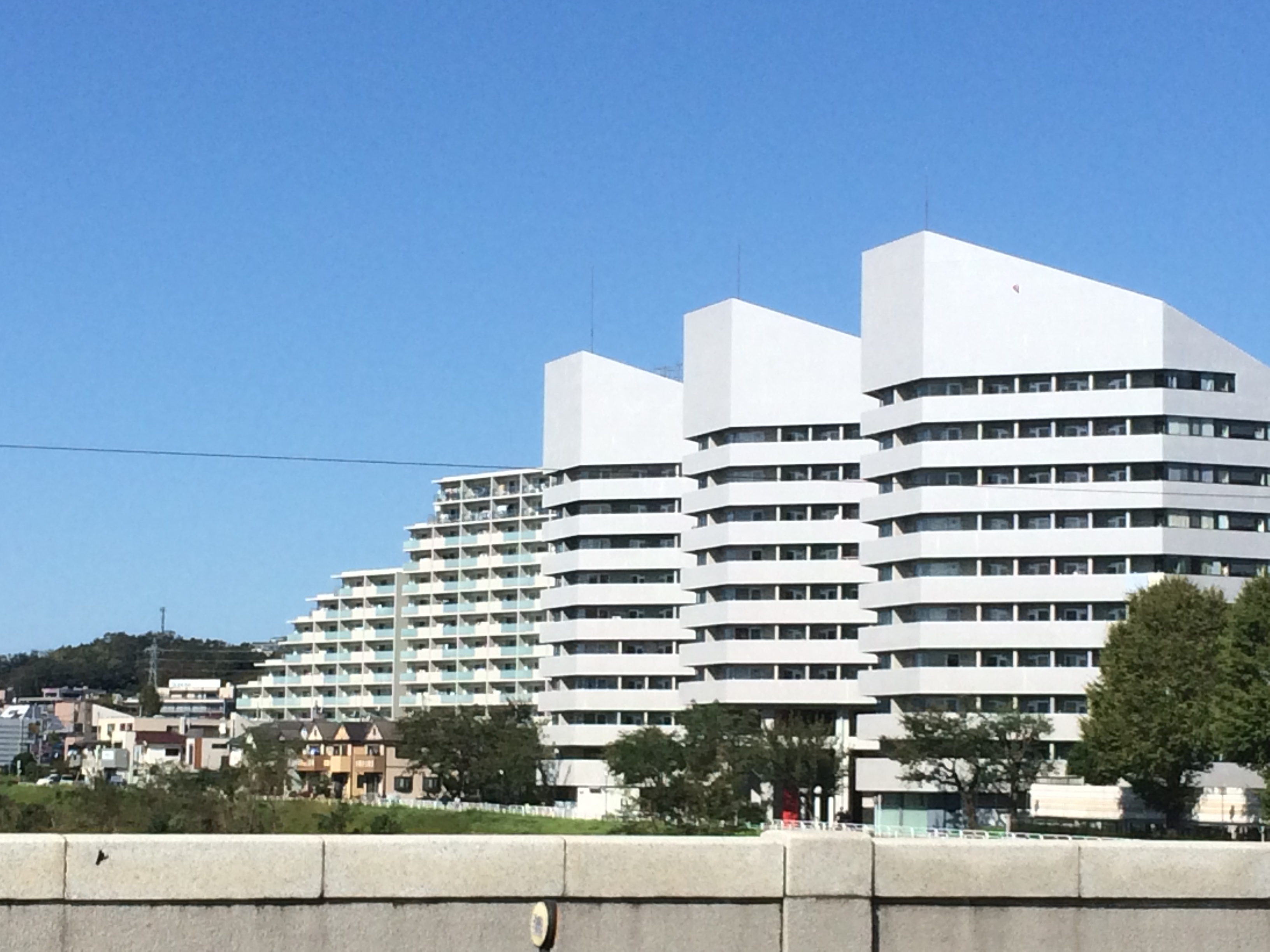 College Town, Hachioji is a uniquely designed apartments for students constructed during babbling economy of 1980s in Japan.